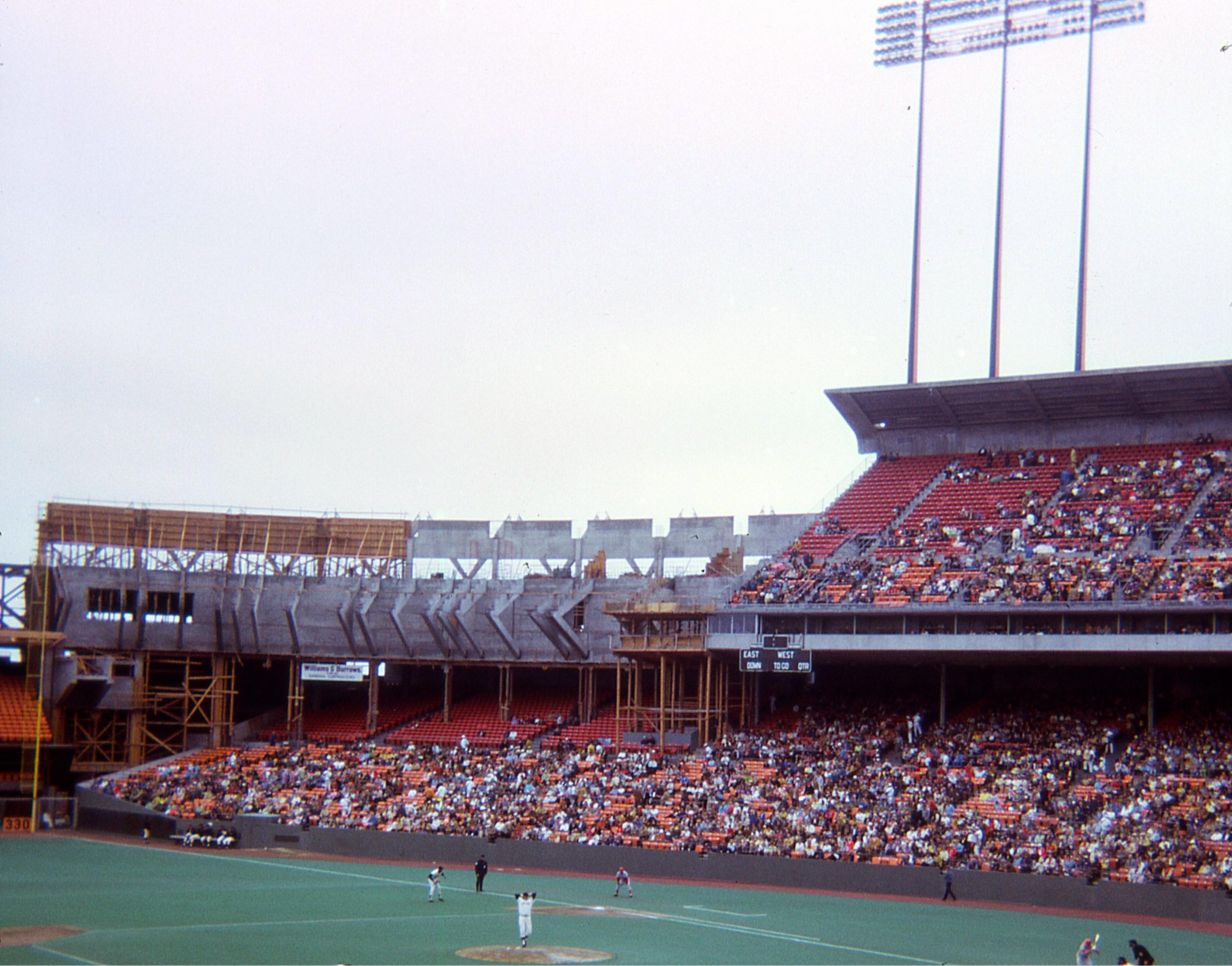 Candlestick Park 7/24/1971 img110